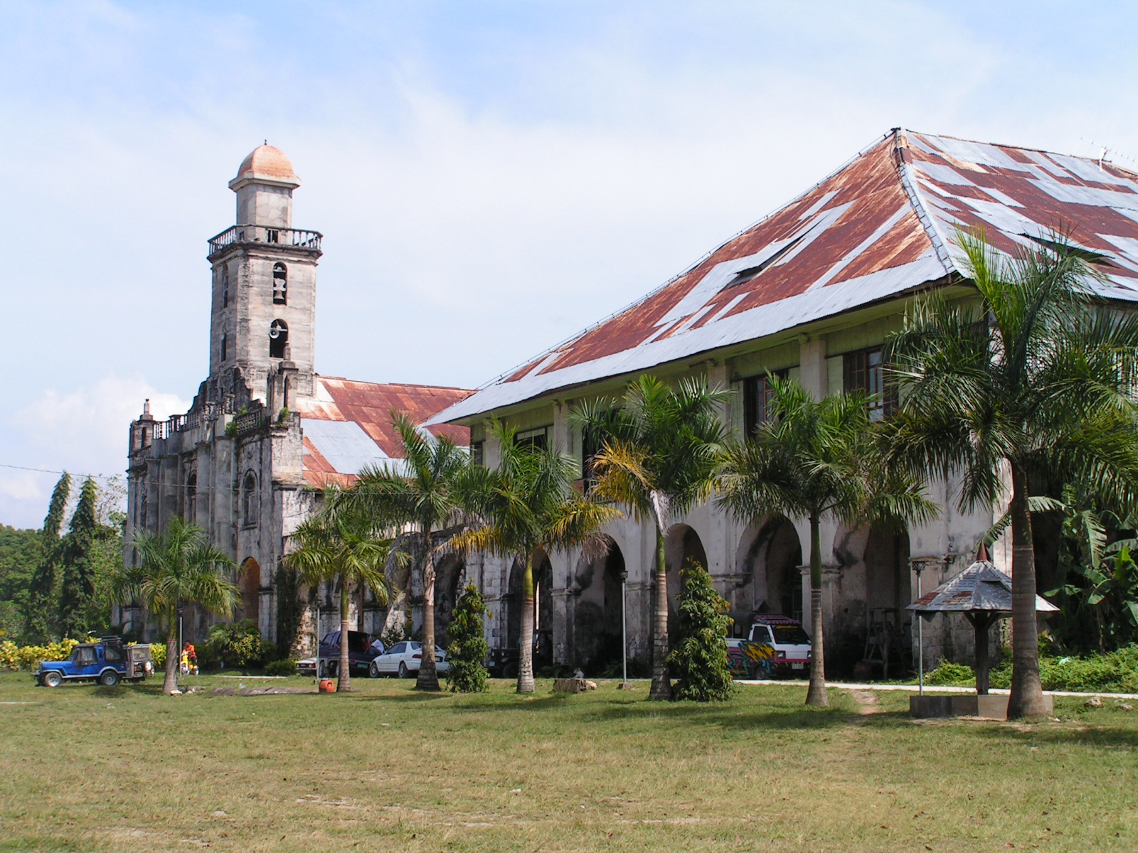 The Roman Catholic church and convent in Alburquerque, Bohol, the Philippines.